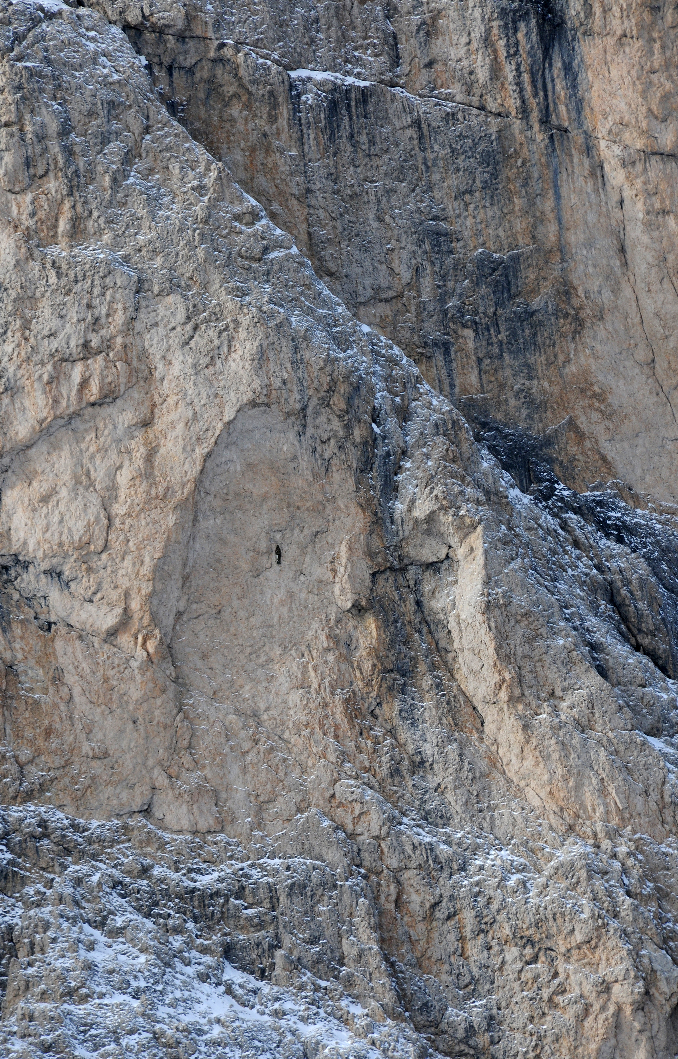 Madonna on the N-E face of the Langkofel carved by Flavio Pancheri